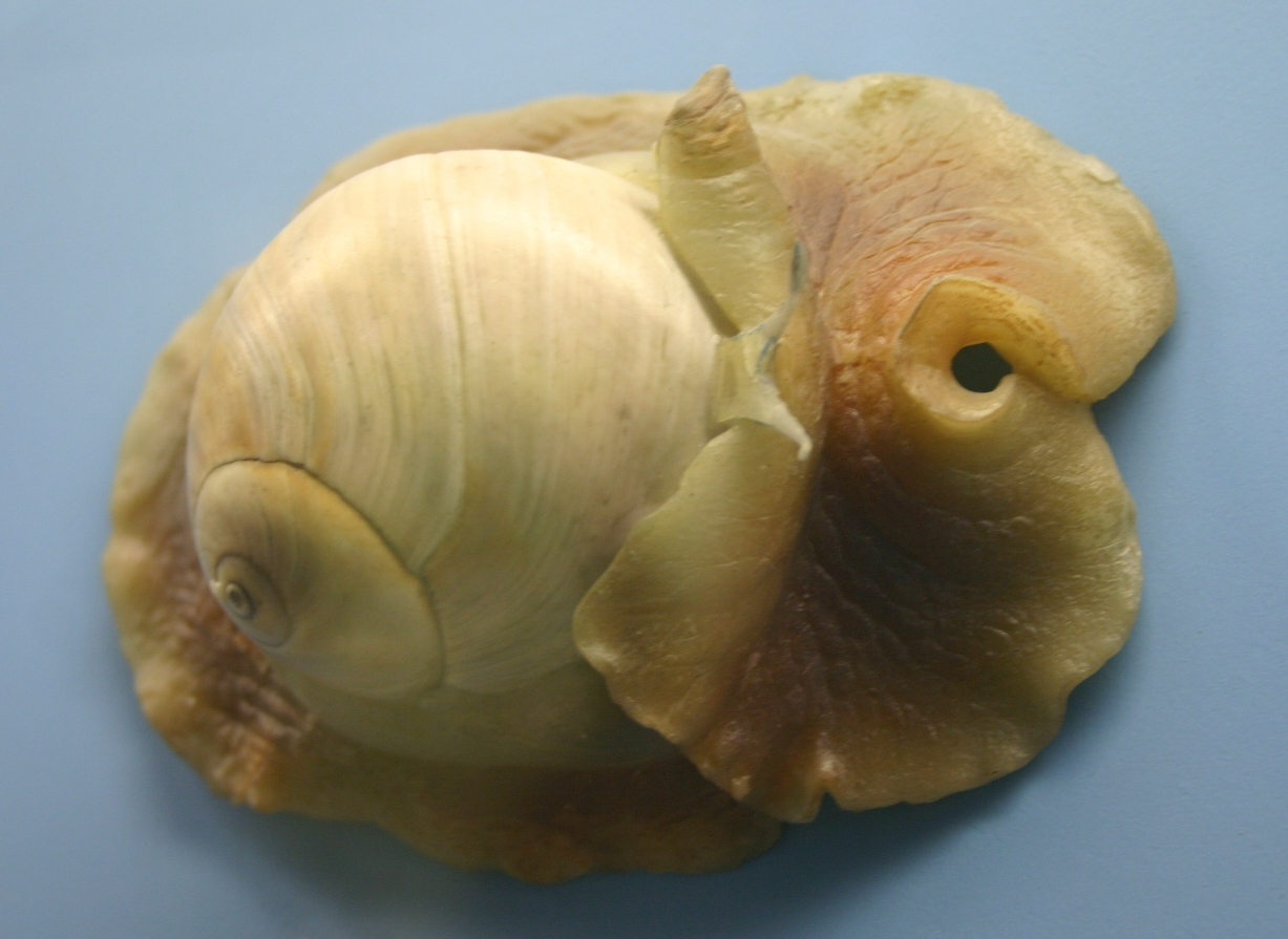 Neverita duplicata, the Atlantic Moon Snail